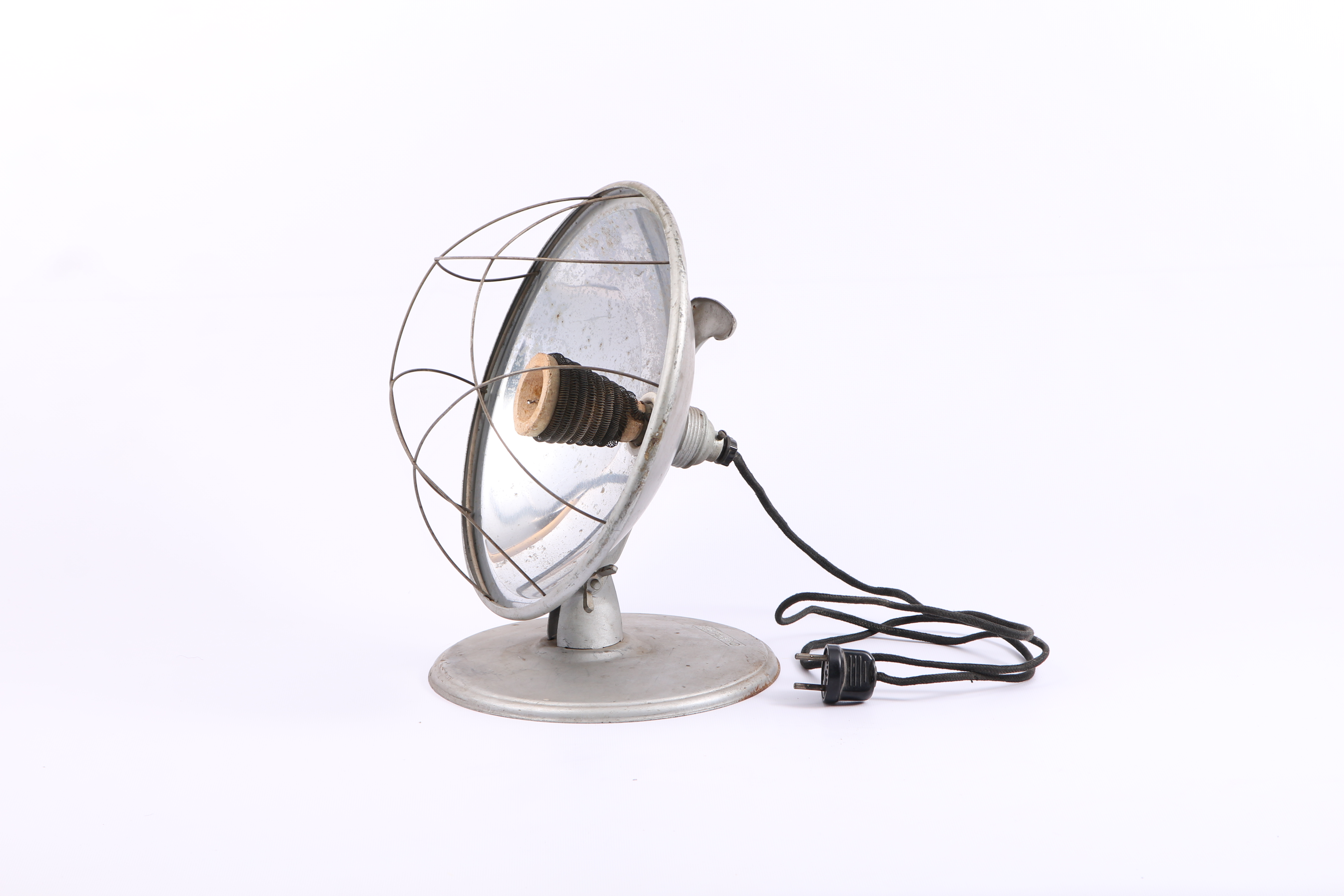 Soviet infrared home heater. 220V 480W power.